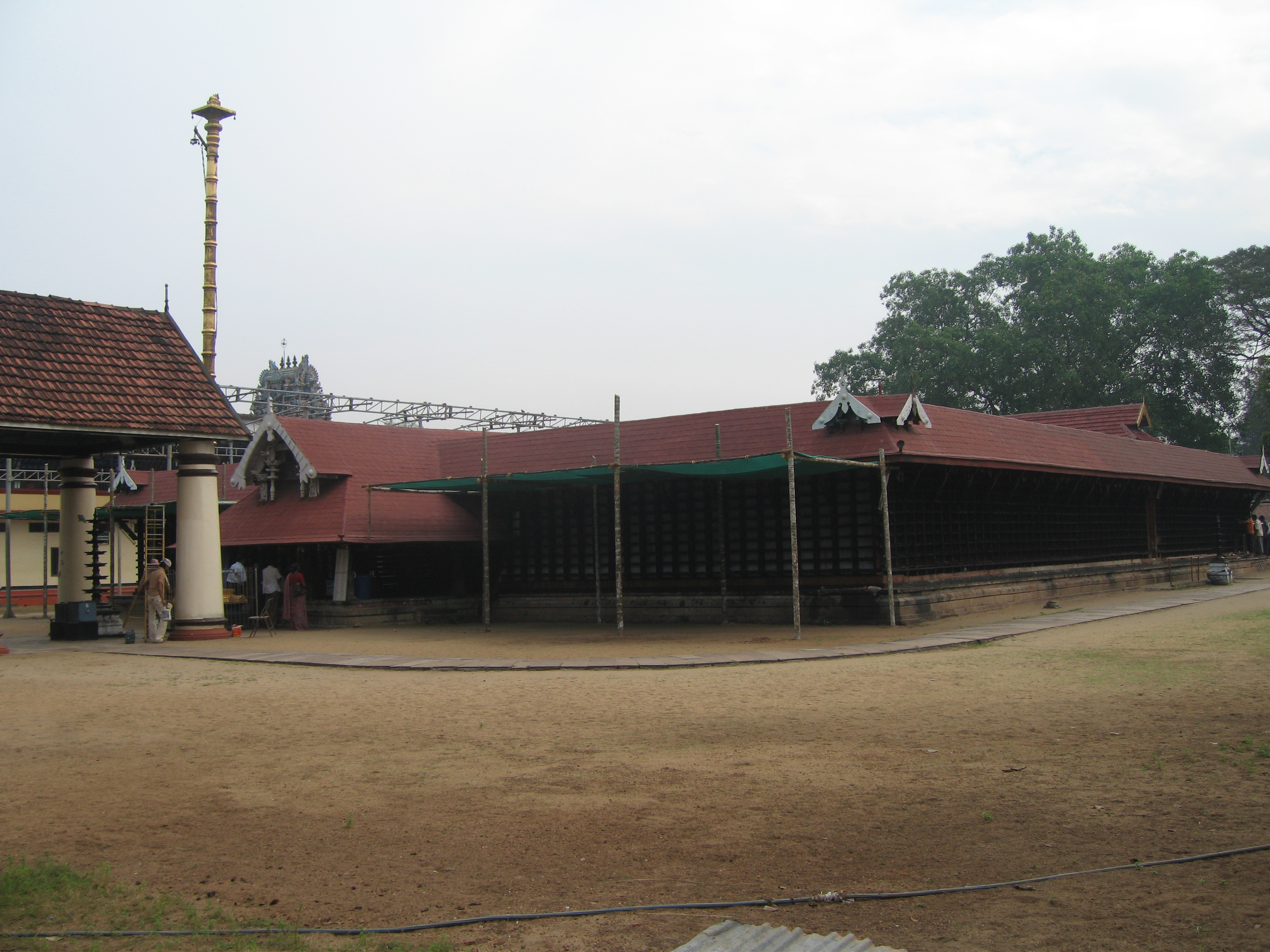 Front view of Ernakulam Shiva Temple, which is an example to the Kerala temple architecture